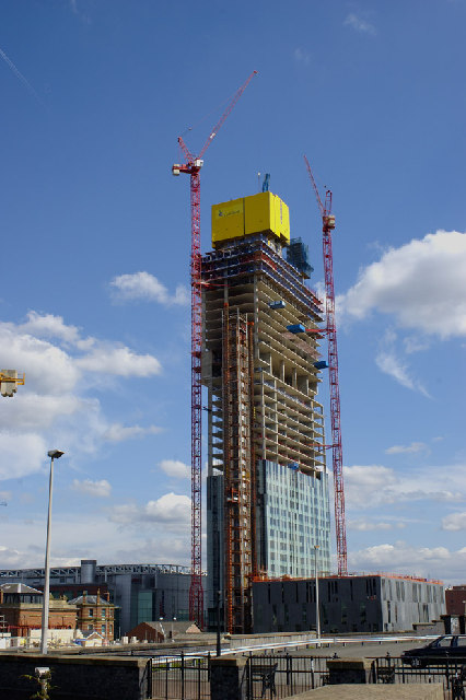 Beetham Tower, 301 Deansgate - under construction. Looking towards the Beetham Tower, September 2005. At this stage of its construction it has reached the 34th floor - with another 14 to go.